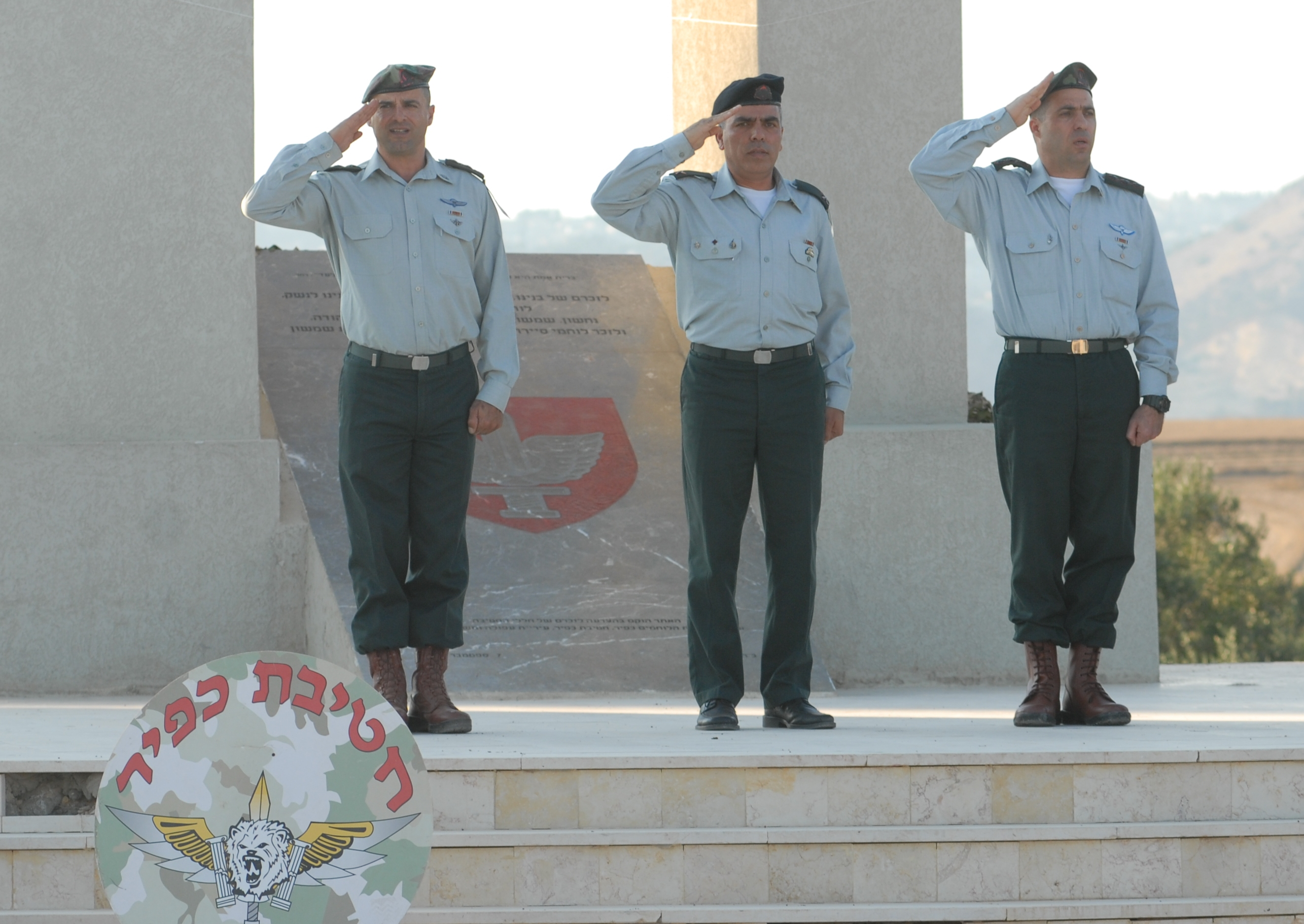 June 27, 2011 Yesterday, Colonel Udi Ben Mucha was appointed as the new commander of the Kfir infantry brigade, in a ceremony which was held at the Kfir Brigade Monument in Afula. The ceremony was attended by Commander of the Central Command, Major General Avi Mizrachi, and Commander of the 162nd Division, Brigadier General Agai Yechezkel. Colonel Udi Ben Mucha will be replacing Colonel Oren Abman, who commanded the brigade for two years. Photography: Cpl. Gal Ashuach, IDF Spokesperson's Unit